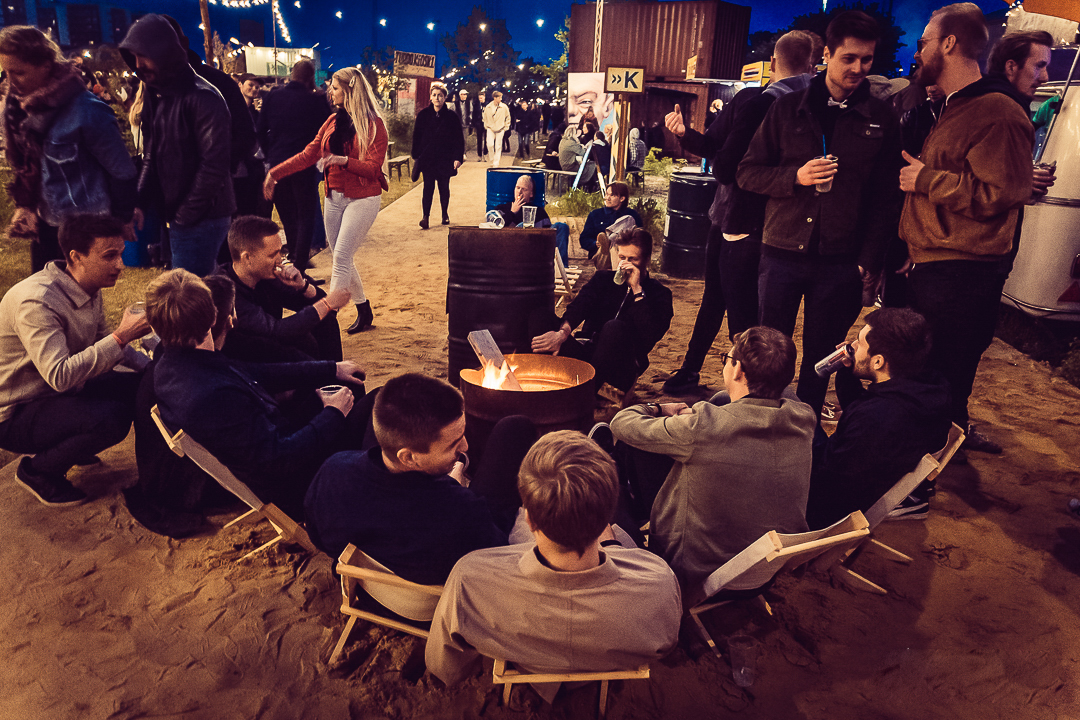 Aarhus K neighbourhood in may 2019